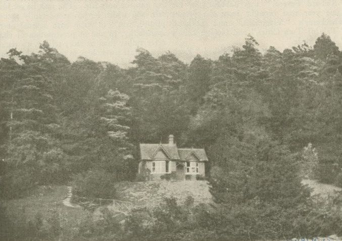 British novelist George Meredith's home in Box Hill, Surrey, where much of his work was written